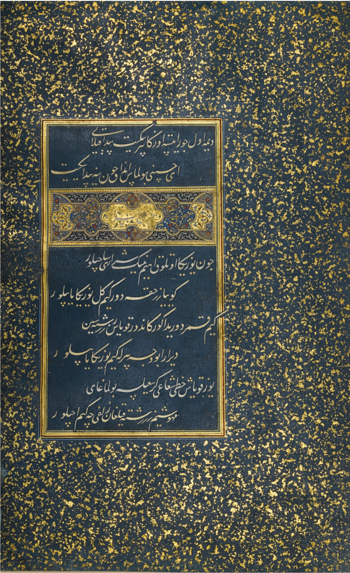 ILLUMINATED PAGE FROM A DIVAN OF SULTAN HUSAYN MIRZA BAYQARA, WITH DÉCOUPAGE NASTA'LIQ CALLIGRAPHY, EASTERN PERSIA, HERAT, CIRCA 1490 Chagatay manuscript folio, opaque watercolour and gold on paper, 8 lines of fine nasta'iq découpage calligraphy in white in blue ground, illuminated heading panel with title in white nasta'liq, wide borders of gold-sprinkled blue paper.